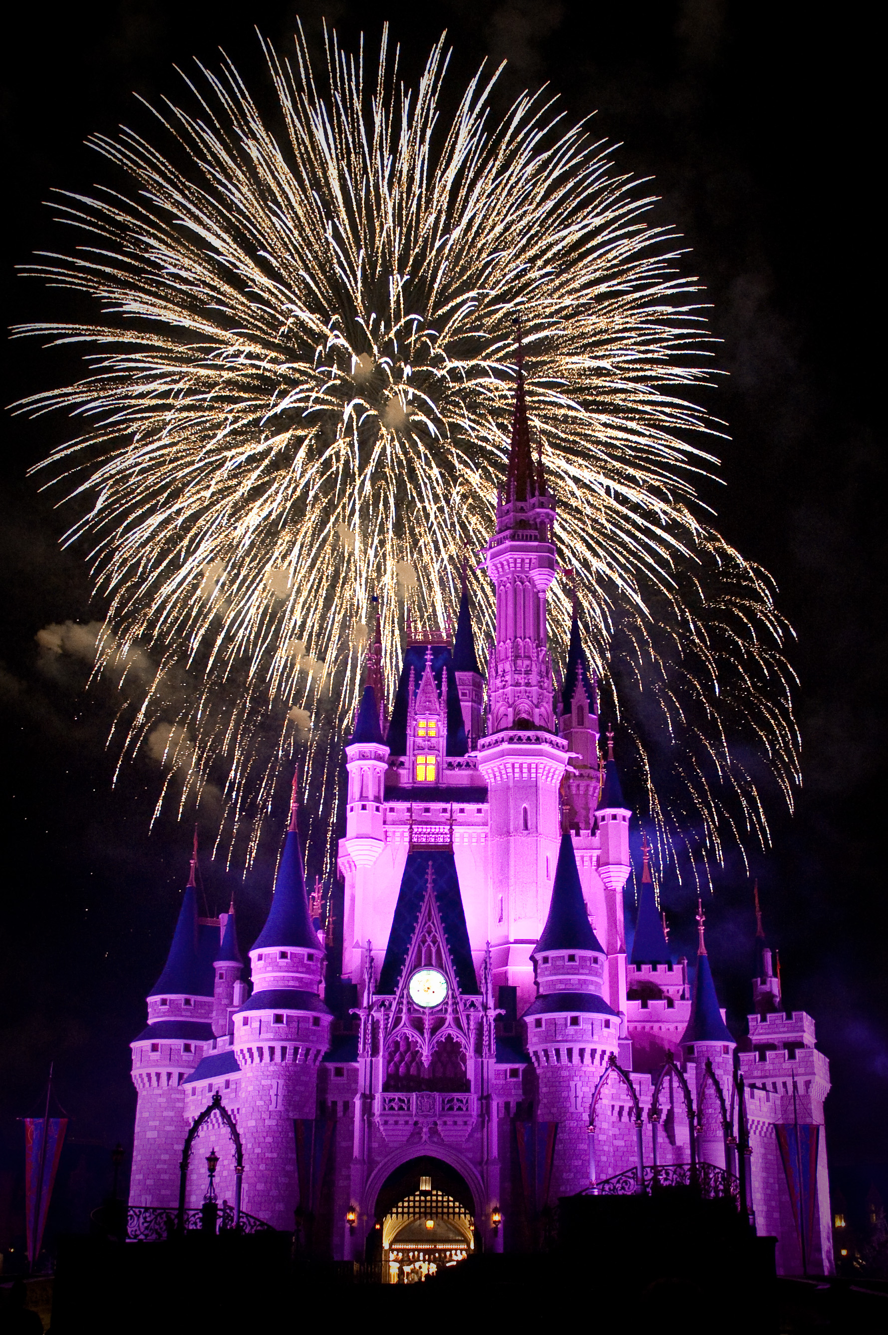 The 'Big Bang' at Wishes - Magic Kingdom - Walt Disney World, Location: Lake Buena Vista